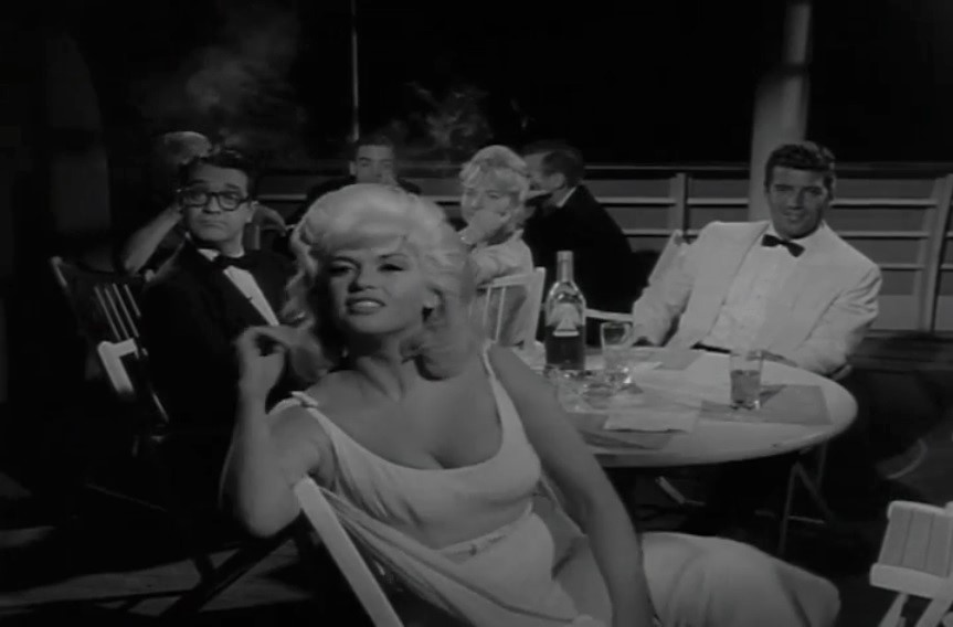 L. to R. : Tommy Noonan, Jayne Mansfield & Mickey Hargitay in Promises! Promises! - trailer (cropped screenshot)